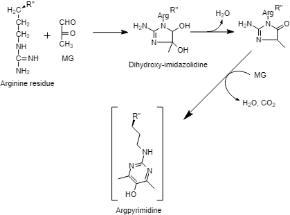 The reaction to synthesize argpyrimidine by the malliard reaction